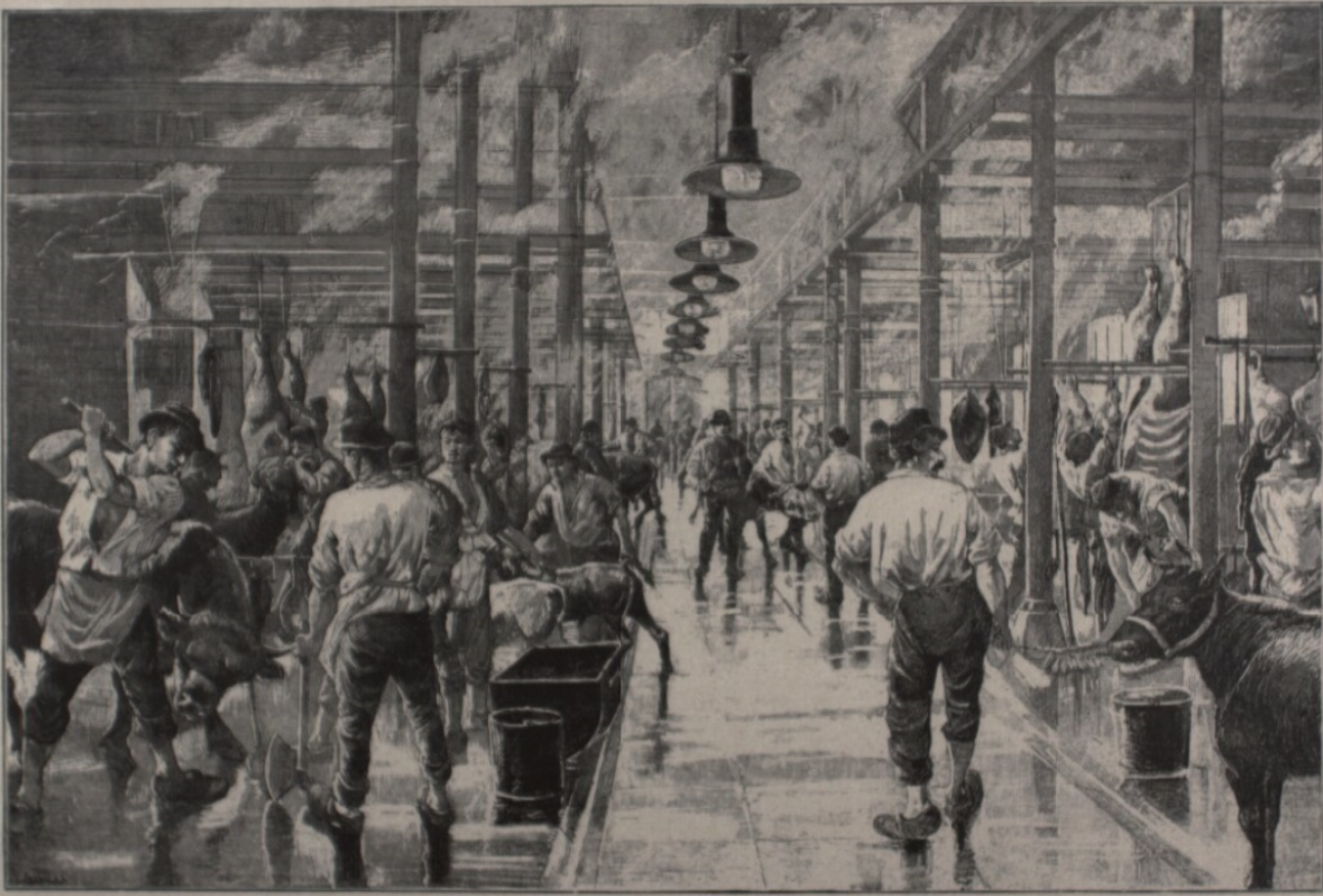 In a slaughterhouse in Kødbyen in Copenhagen, Denmark